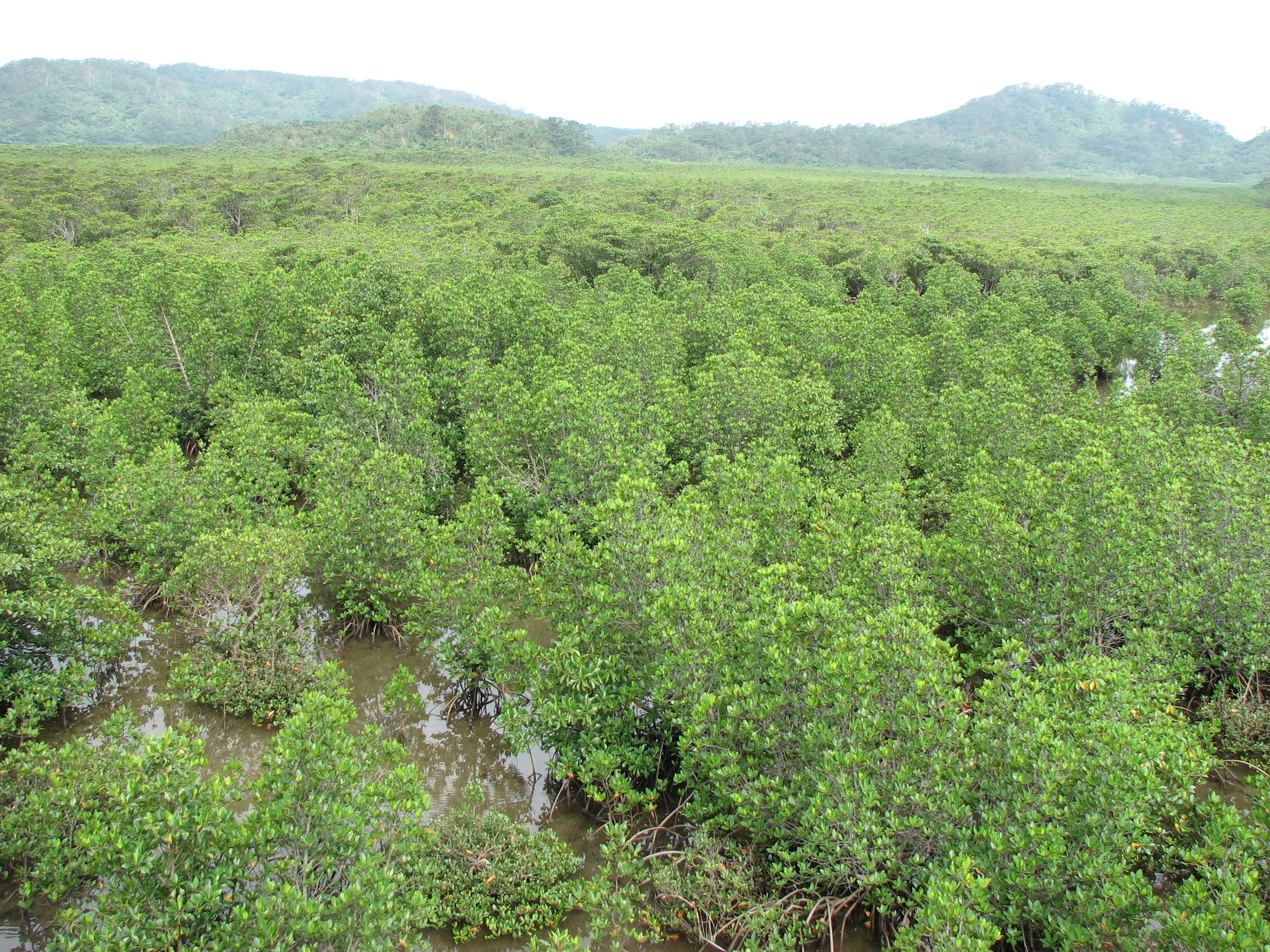 Rhizophora mucronata mangrove at Iriomote is. Okinawa,Japan